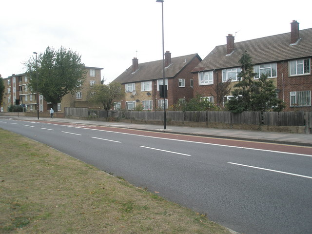 A rare sight in Southall No traffic on the Uxbridge Road.